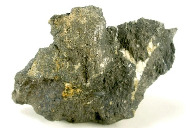 Ullmannite Locality: Storch und Schöneberg Mine, Gosenbach, Siegerland, North Rhine-Westphalia, Germany (Locality at ) Size: 4.8 x 3.1 x 2.5 cm. Ullmanite is a rare nickel, antimony sulfide that forms in the isometric system. This specimen of solid ullmannite is from the Type Locality in Germany and is embedded with highly lustrous, metallic-gray, platy crystals that reach .6 cm across. This is rich and incredibly important example from this classic locality. Ullmanite, in good crystals, occurs very rarely. This old-time specimen is accompanied by three labels. Julius Bohm, one of the most important of the early Viennese mineral dealers, opened for business in 1884. His label with the piece dates from 1925-38.